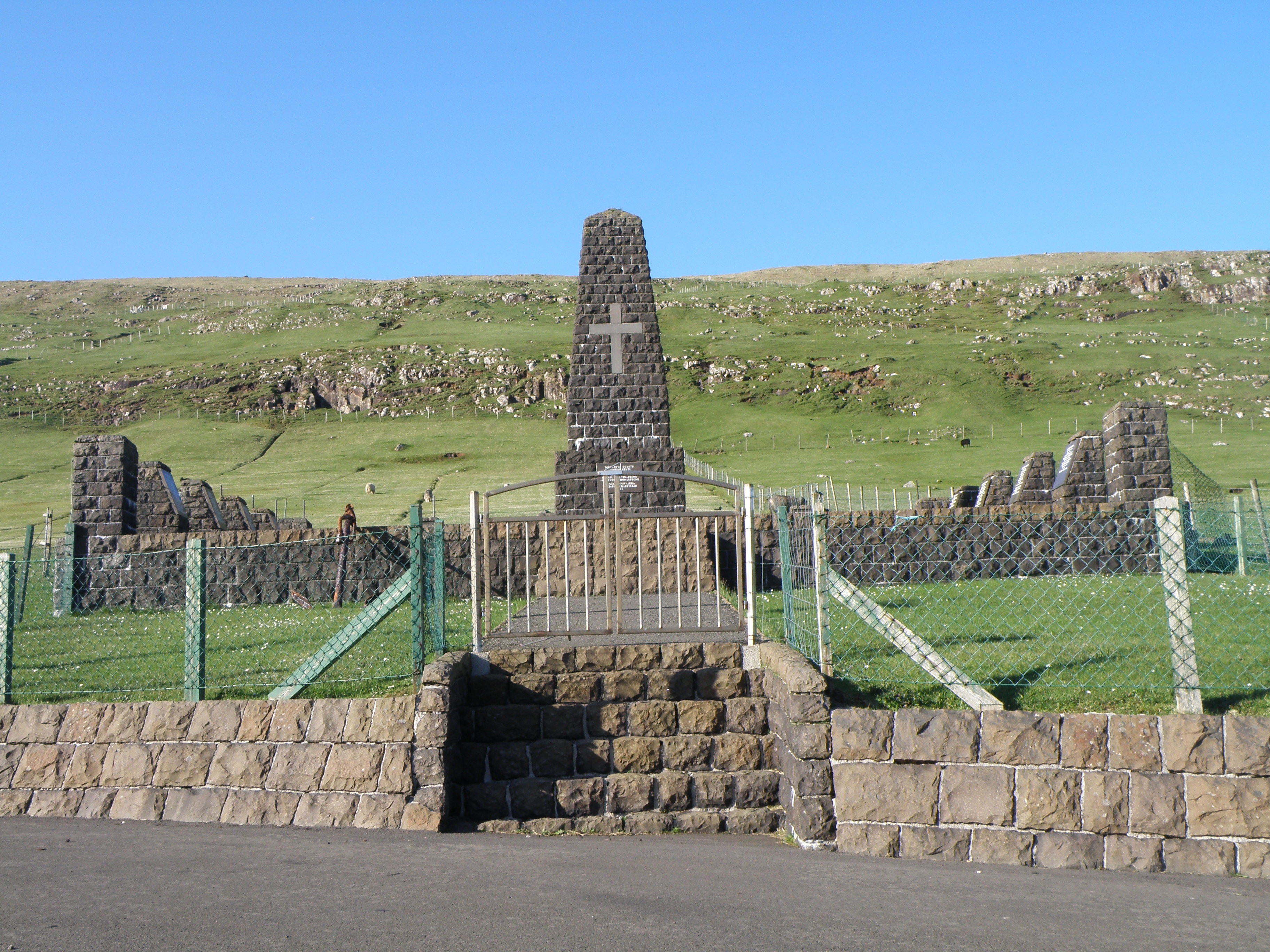 Memorial in Porkeri, Suðuroy, Faroe Islands in memory of people who lost their lives at sea. The name of the dead are written with white letters on stone plates on the small piles which stand around the large pile in the middle. On the first stone starting from the left side of the memorial, near the road: 5 names, the first one was Joen Joensen á Gaddi, who was lost with the vessel Royndin Fríða in 1808 together with the famous Faroese hero Nólsoyar Páll (who is not mentioned here because he was not from Porkeri). Joen is the Danish form of the Faroese name Jógvan. In the 19th century and earlier peoples names were written in the Danish form. The second stone has 6 names. The trird stone has 5 names. The fourth stone has 6 names. The fifth stone has 6 names (all 6 went drowned in 1910 with North Star (Norðstjørnan). The 6th stone has 5 names The 7th stone has 5 names. The 8th stone has 5 names (died from 1932 to 1938). The 9th stone has 8 names (all died in one boat accident in 1940 with Búgvin, age 17-44) The 10th stone has 6 names (died in 1941 and 1944) The 11th stone has 5 names (died in 1952 and 1953) The 12th stone has 3 names (died in 1956, 59 and 61) All together 65 names of men from Porkeri who lost their lives at sea (a few died on land by falling down from a cliff or due to the World War II). The memorial Lost at Sea in Porkeri, in memory of the sea men and others who lost their lives at sea, most of them were fishermen. Føroyskt: Minnisvarðin í Porkeri stendur ovarliga í bygdini. Minnisvarðin varð reistur í 1967. Lagaður av føroyskum gróti.